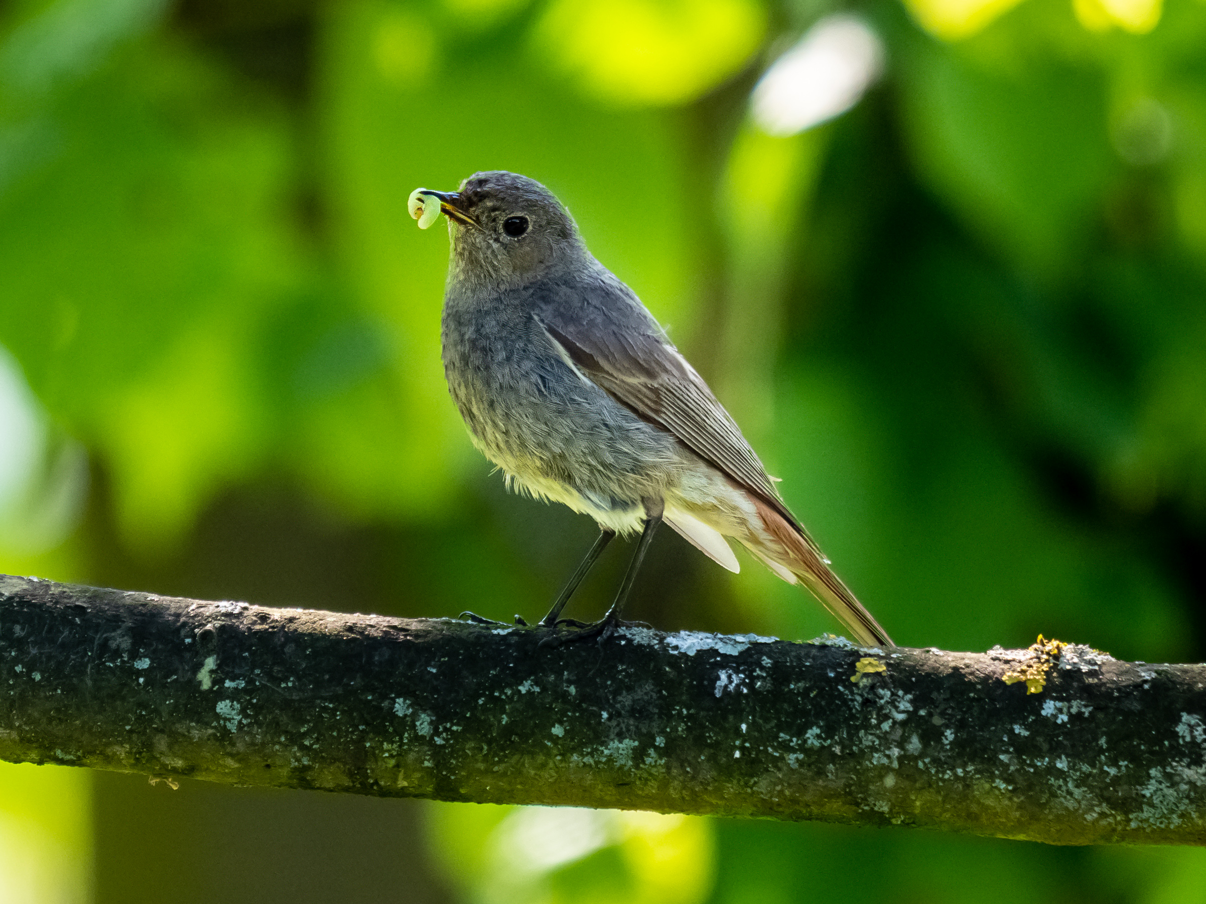 Black redstart, female, in the park of Seehof Castle near Bamberg